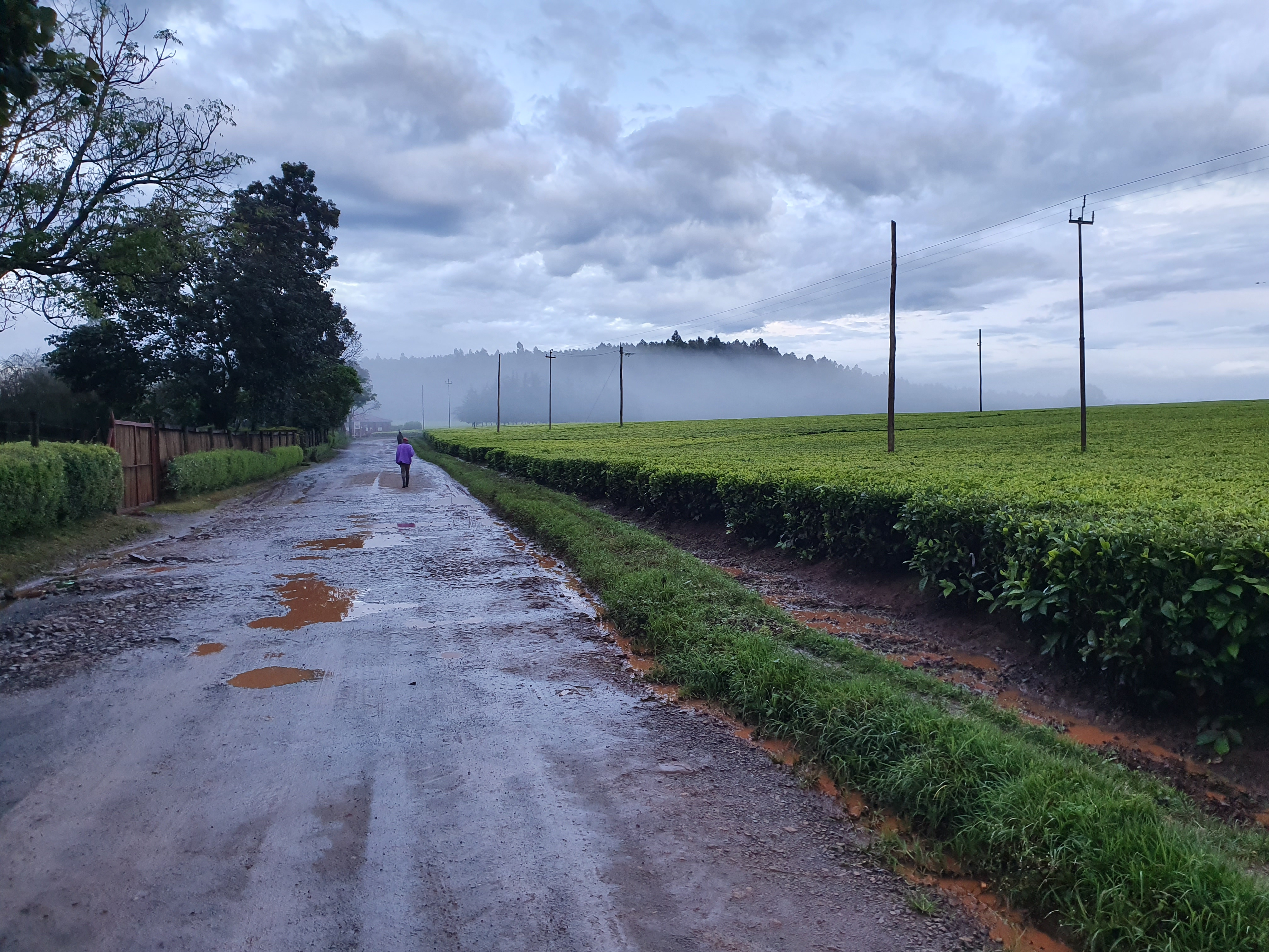 Lone Walker on a chilly morning near the Mau forest in Kericho This is an image with the theme "Africa on the Move or Transport" from: Kenya